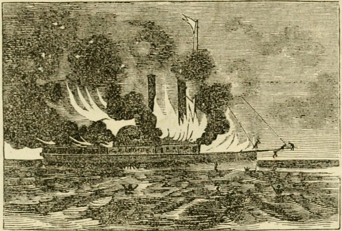 A depiction of the steamship G. P. Griffith burning on 17 June 1850.